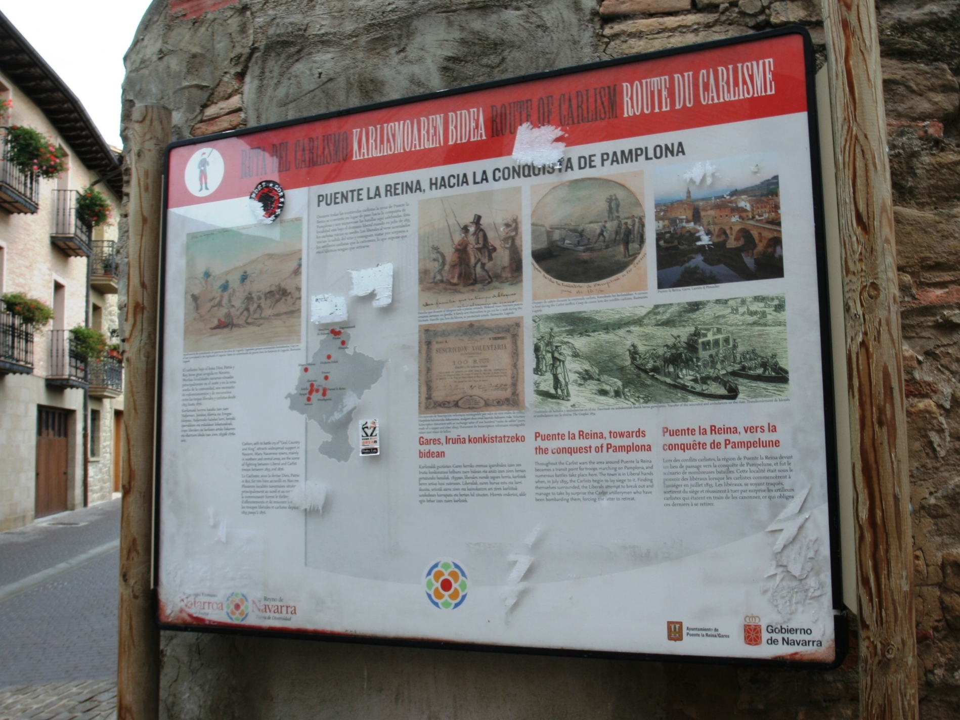 Puente La Reina. Tourist information panel marking the Route of Carlism